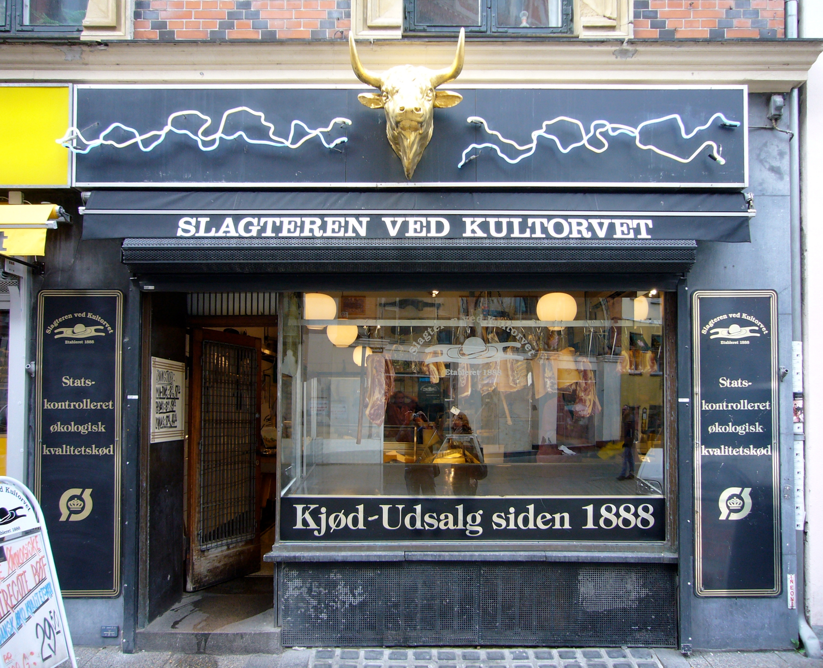 A butcher's shop in Copenhagen, Denmark